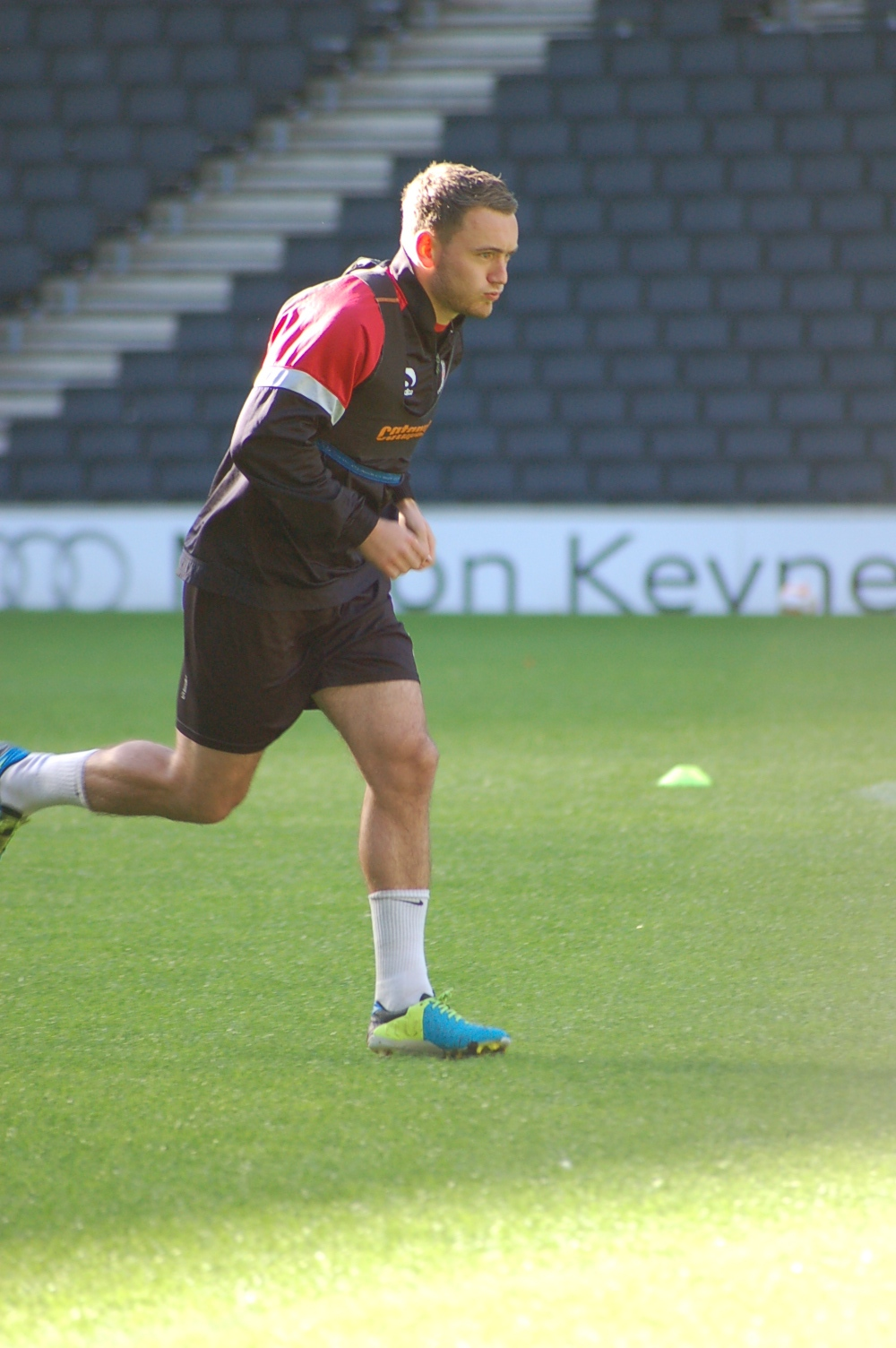 Lee Hodson during MK Dons open training on 29 October 2013.